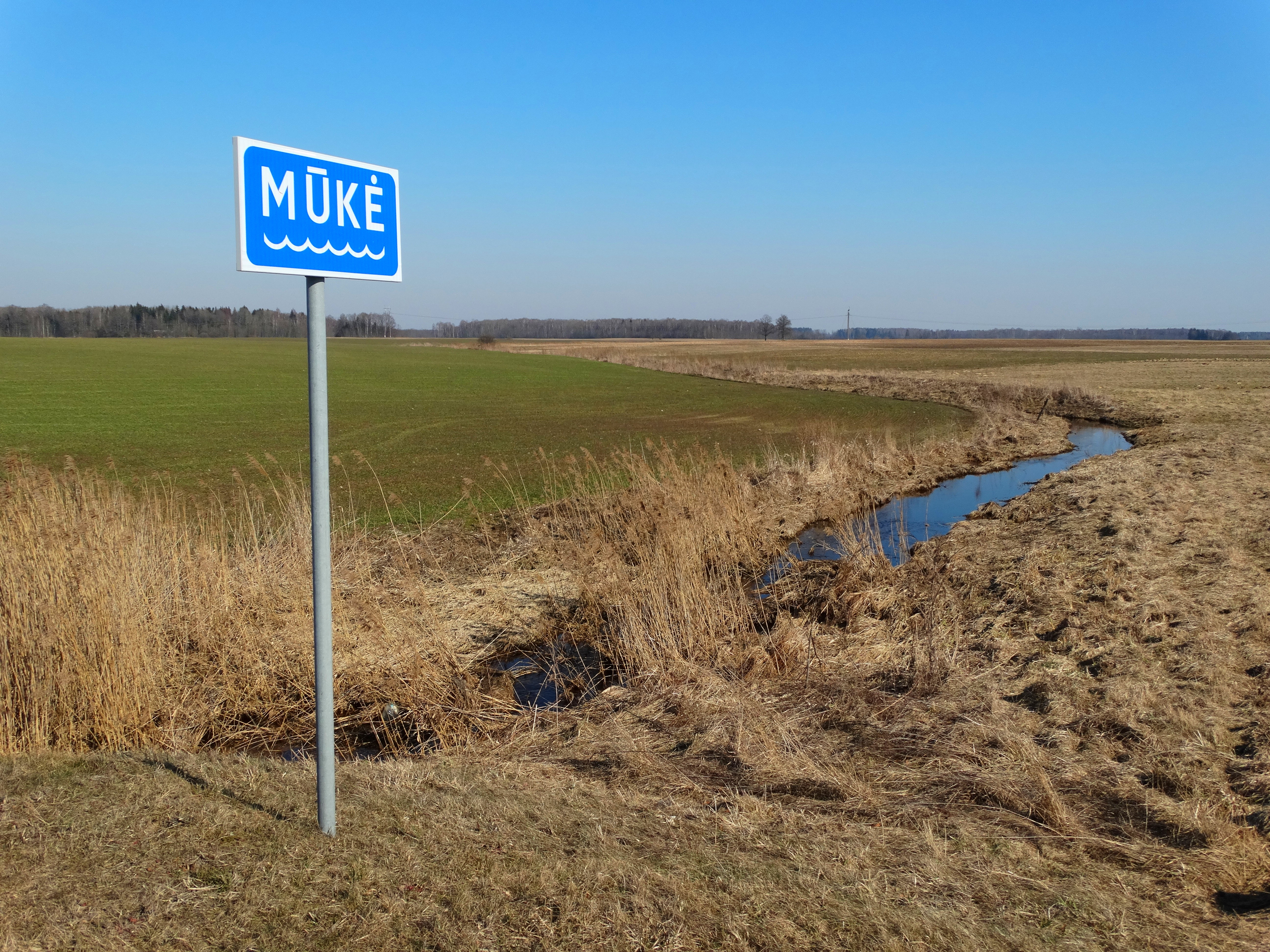 Mūkė River, tributary of Dubysa River, Raseiniai district, Lithuania